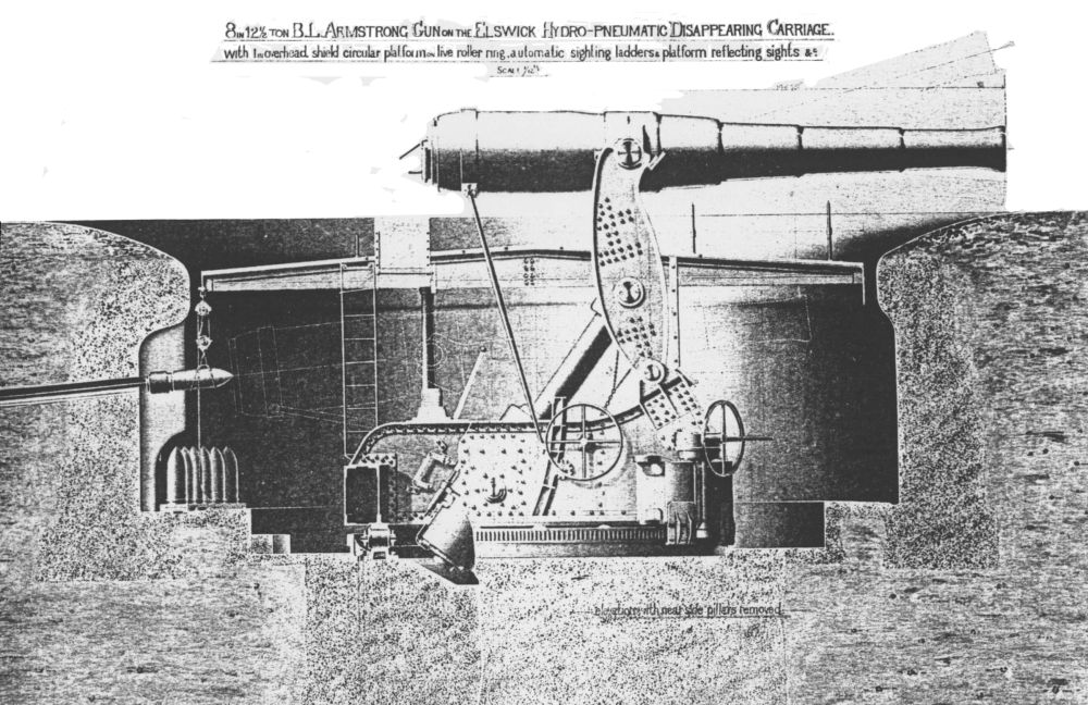 Diagram showing British BL 8 inch 12½ ton gun on Elswick hydropneumatic disappearing carriage. This appears to be a BL 8-inch Mk VII gun on Mk IV mounting.